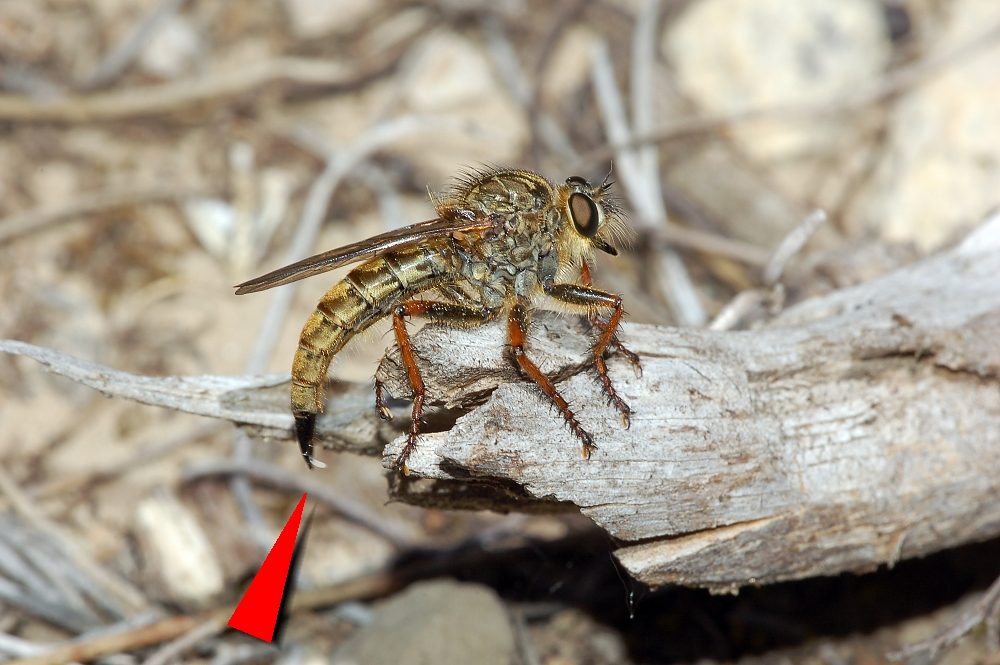 Oviposition, St. Guilhem le Desert, Languedoc-Roussillon, France